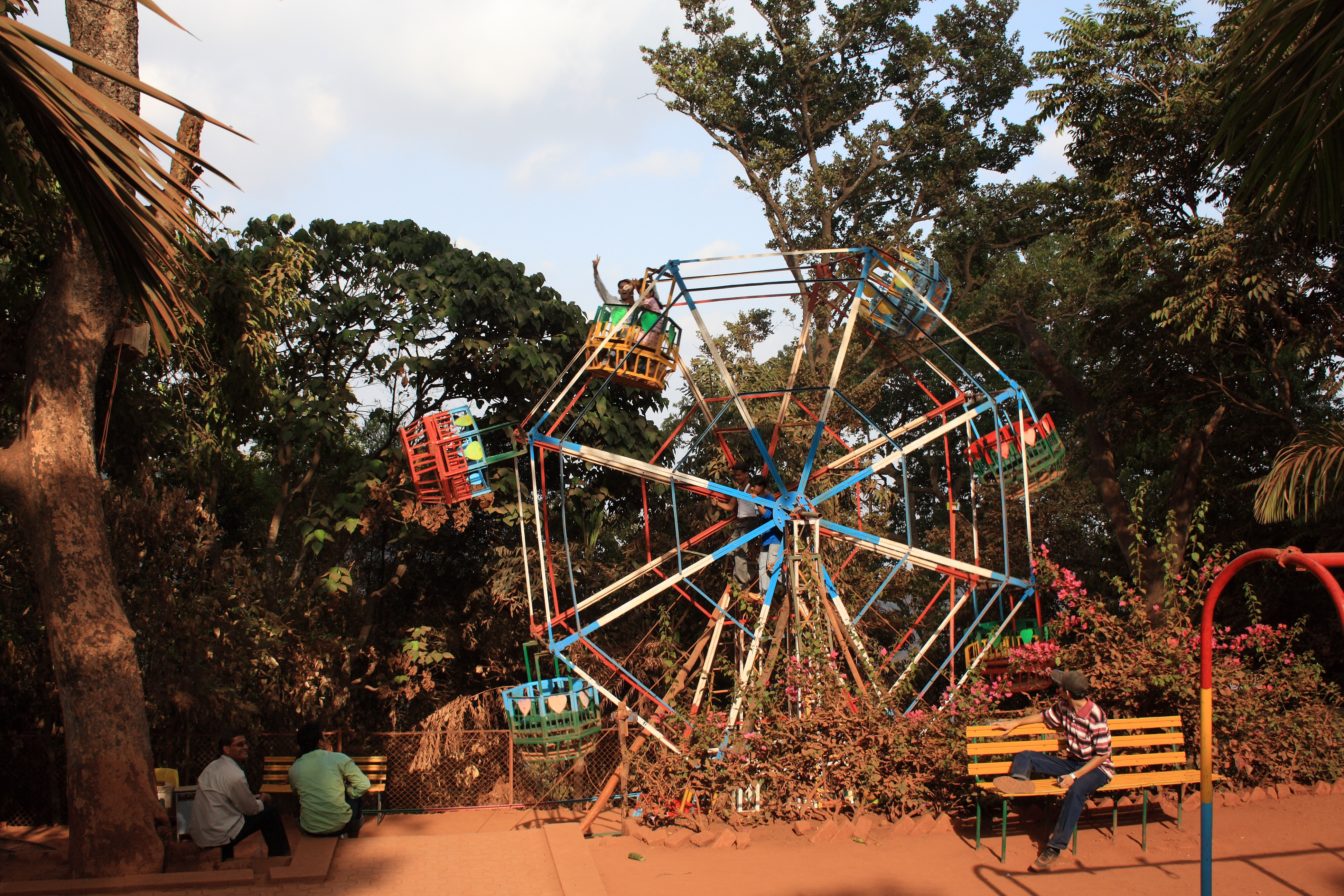 A muscle powered big wheel on a playground at Matheran, Mahatashtra, India.